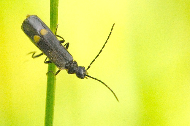 Malthodes marginatus from Commanster, Belgian High Ardennes .